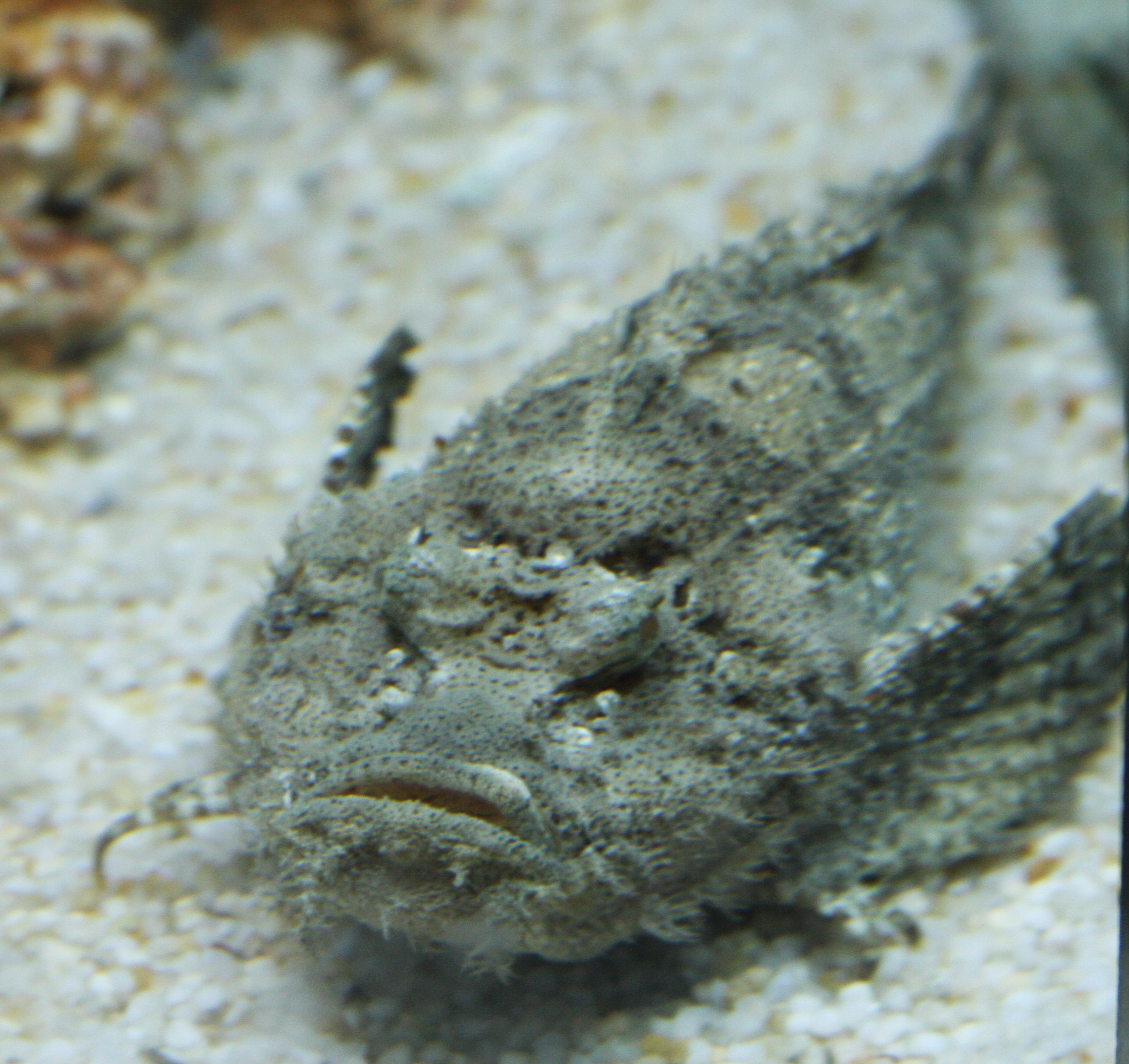 Inimicus didactylus. From Bangkok aquarium.